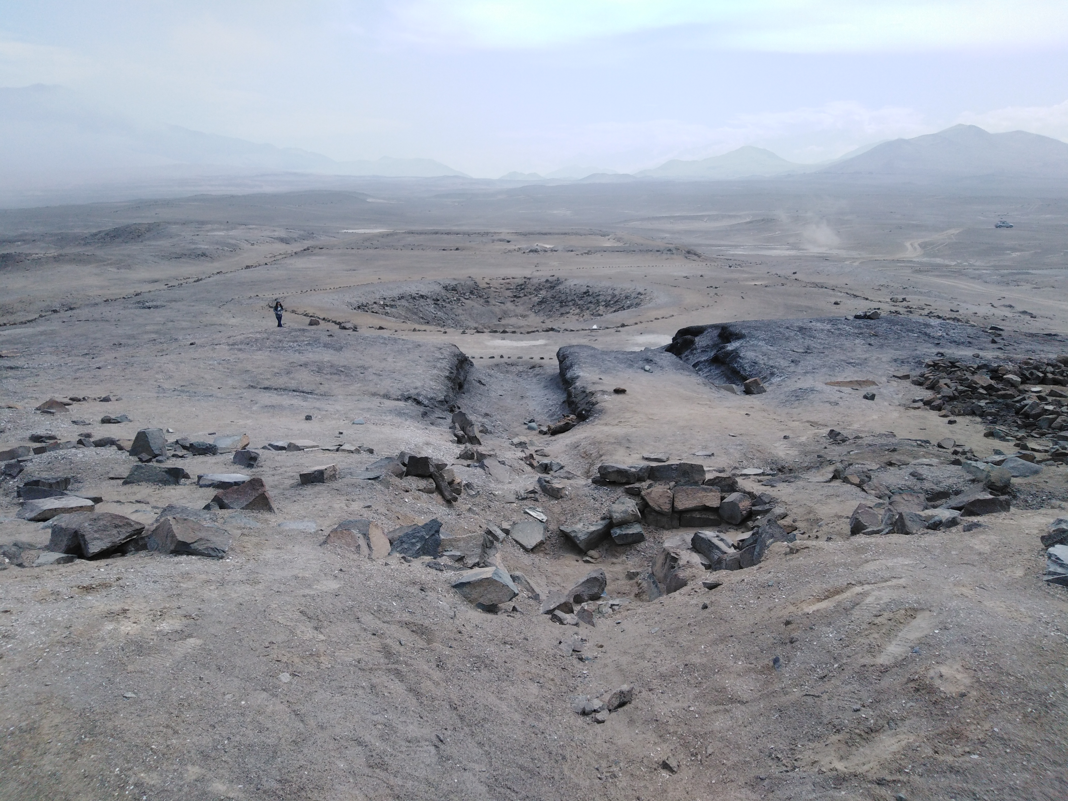 View of the sunken oval structure of the main building of Las Aldas, 2017.